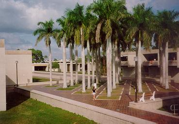 A view of Palm Court at New College of Florida as seen in 1995.